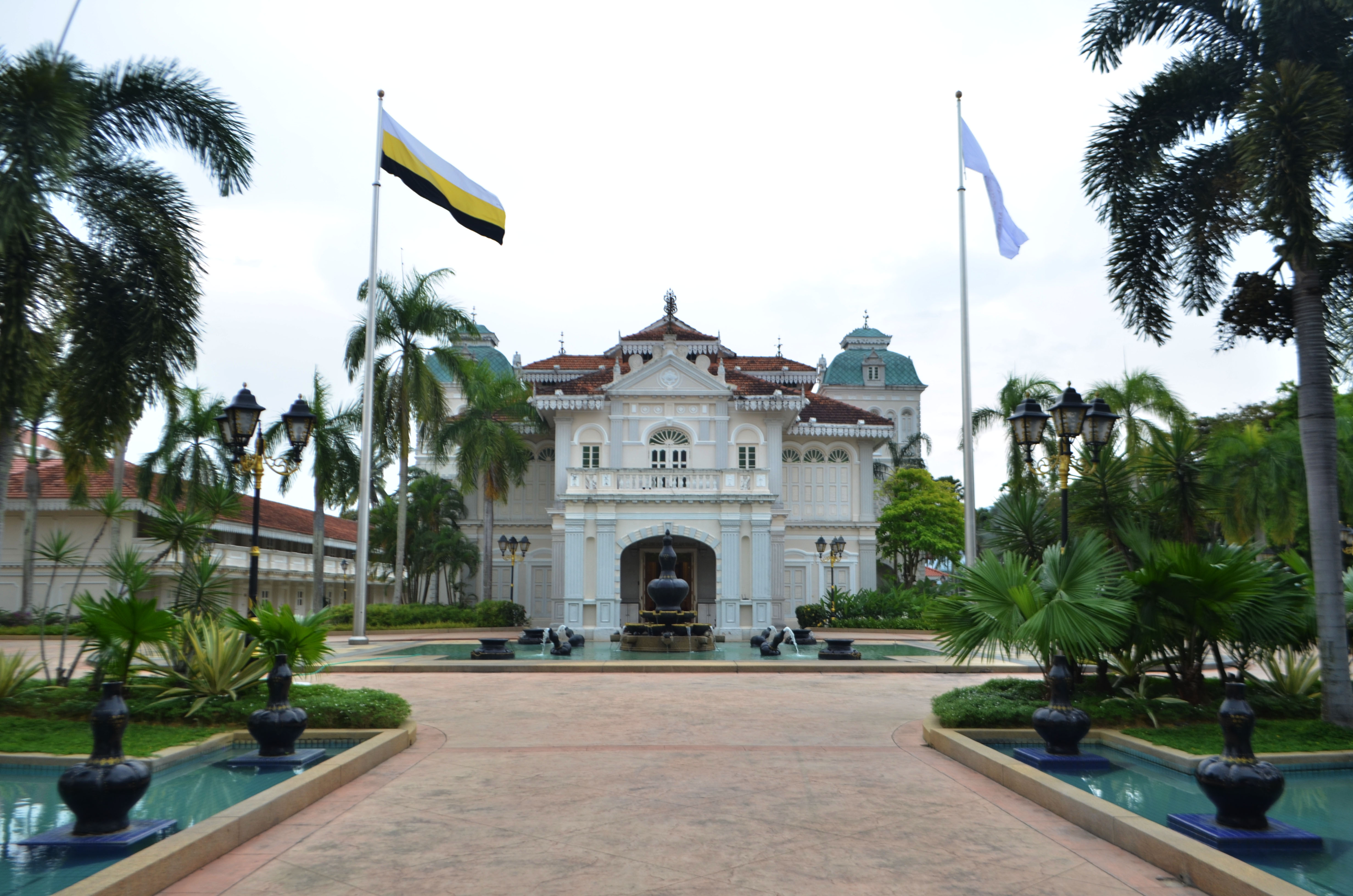 Istana Ulu, first occupied by Sultan Idris in 1903, was restored in its centenary year, 2003, and it's now Galeri Sultan Azlan Shah.